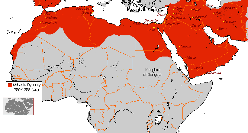 Abbasid Empire 750-788. Note that during the era of the Abbasid caliphate's maximum expansion, Fustat was actually the main city of Egypt...